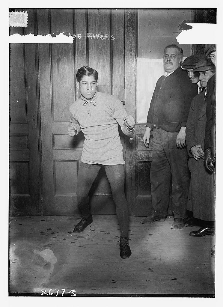 Joe Rivers (1892-1957) was born Jose Ybarra, in Los Angeles, California